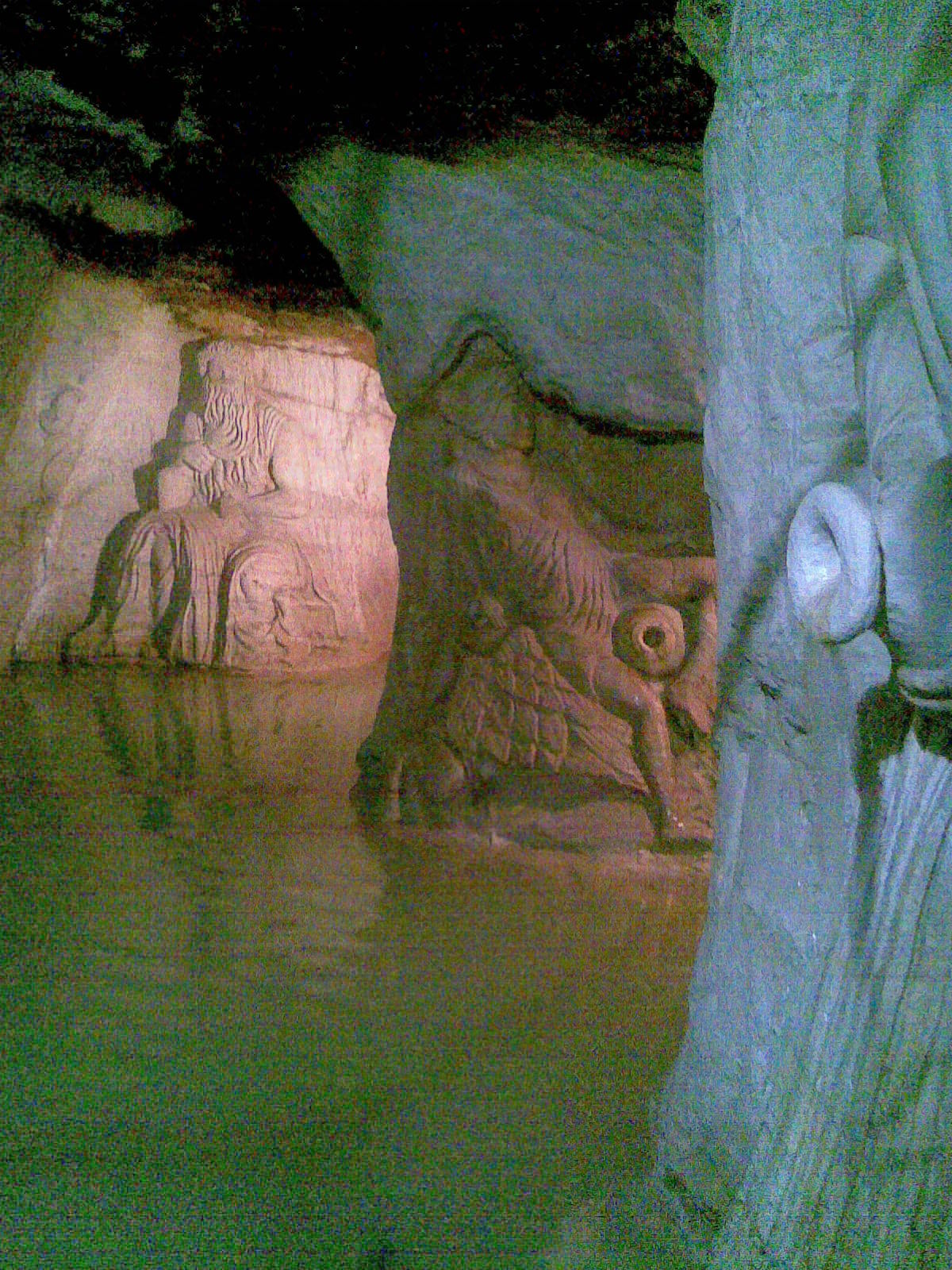 Bloudan Grotto, Bloudan, Syria.